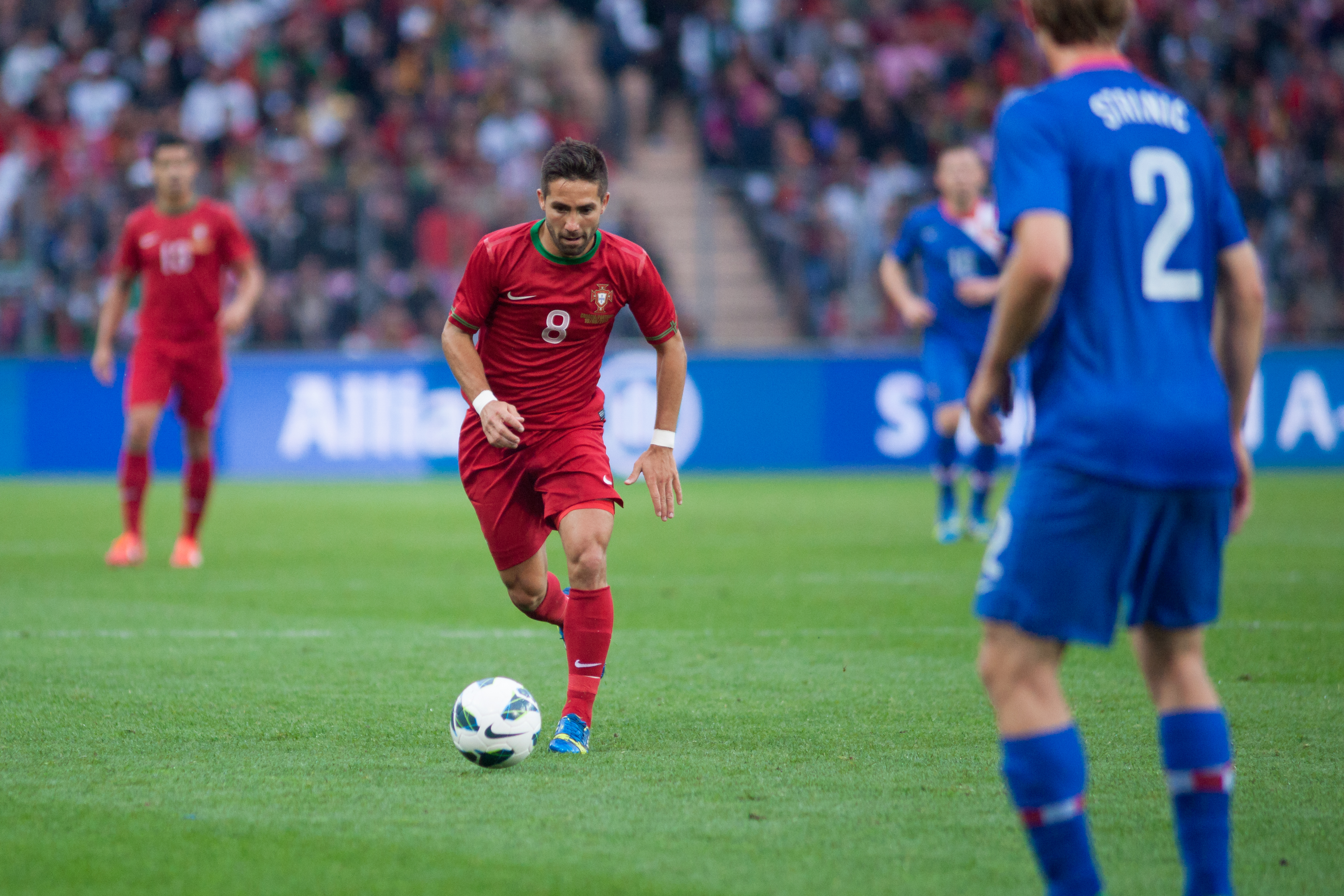 Croatia vs. Portugal, 10th June 2013